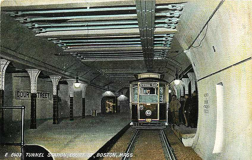 Early divided back postcard of Court Street station with a special car